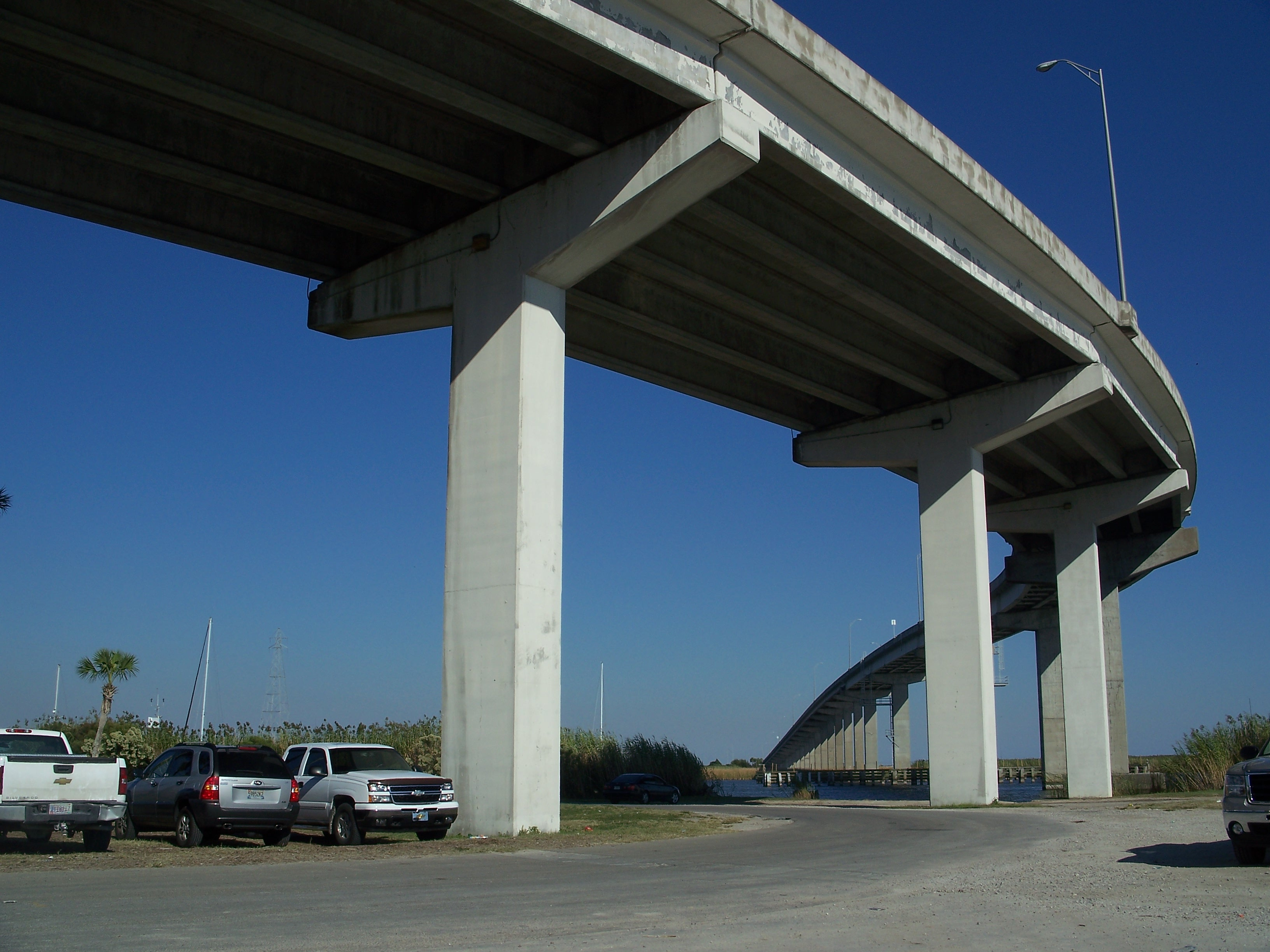 Apalachicola, Florida: John Gorrie Memorial Bridge: Underneath